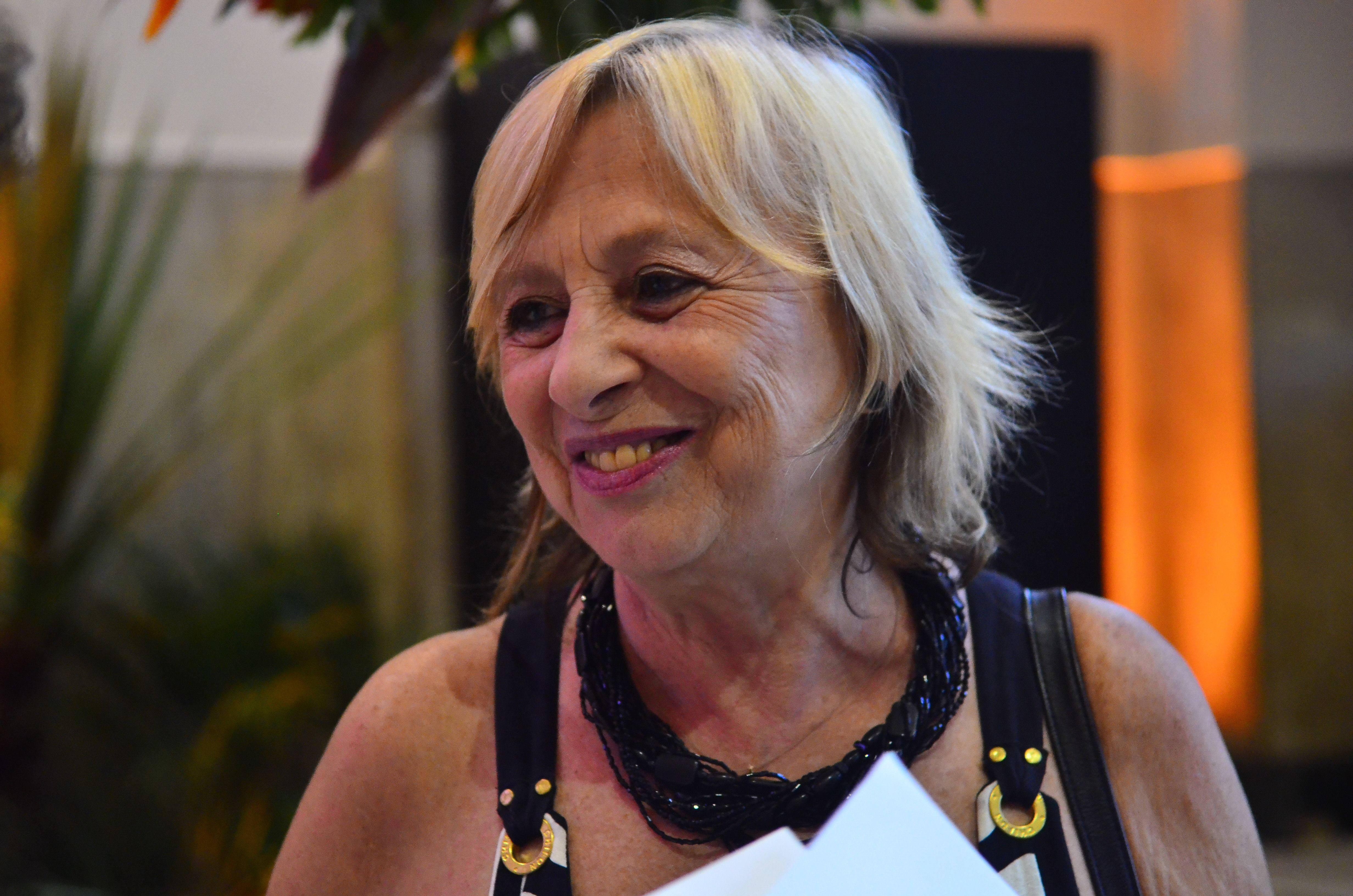 Schuma Schumaher. Photo by Tomaz Silva/Agência Brasil CCBY3.0